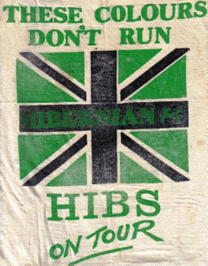 picture of original batch of t-shirts from one that had been worn at many games